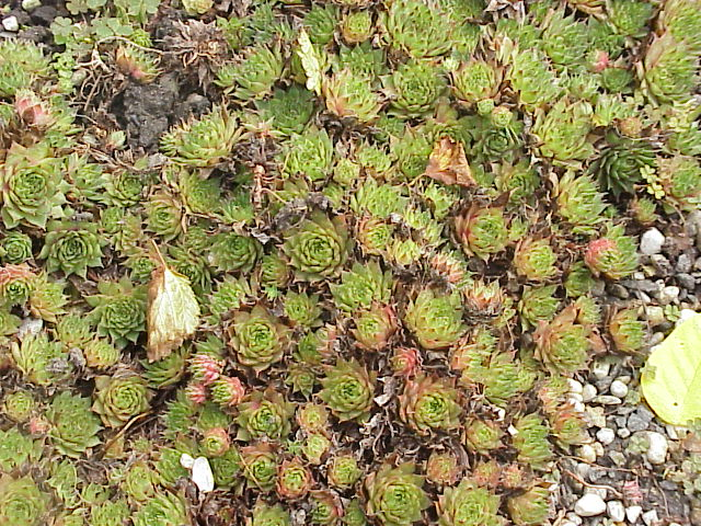 Species: Sempervivum tectorum Family: Crassulaceae Image No. 2